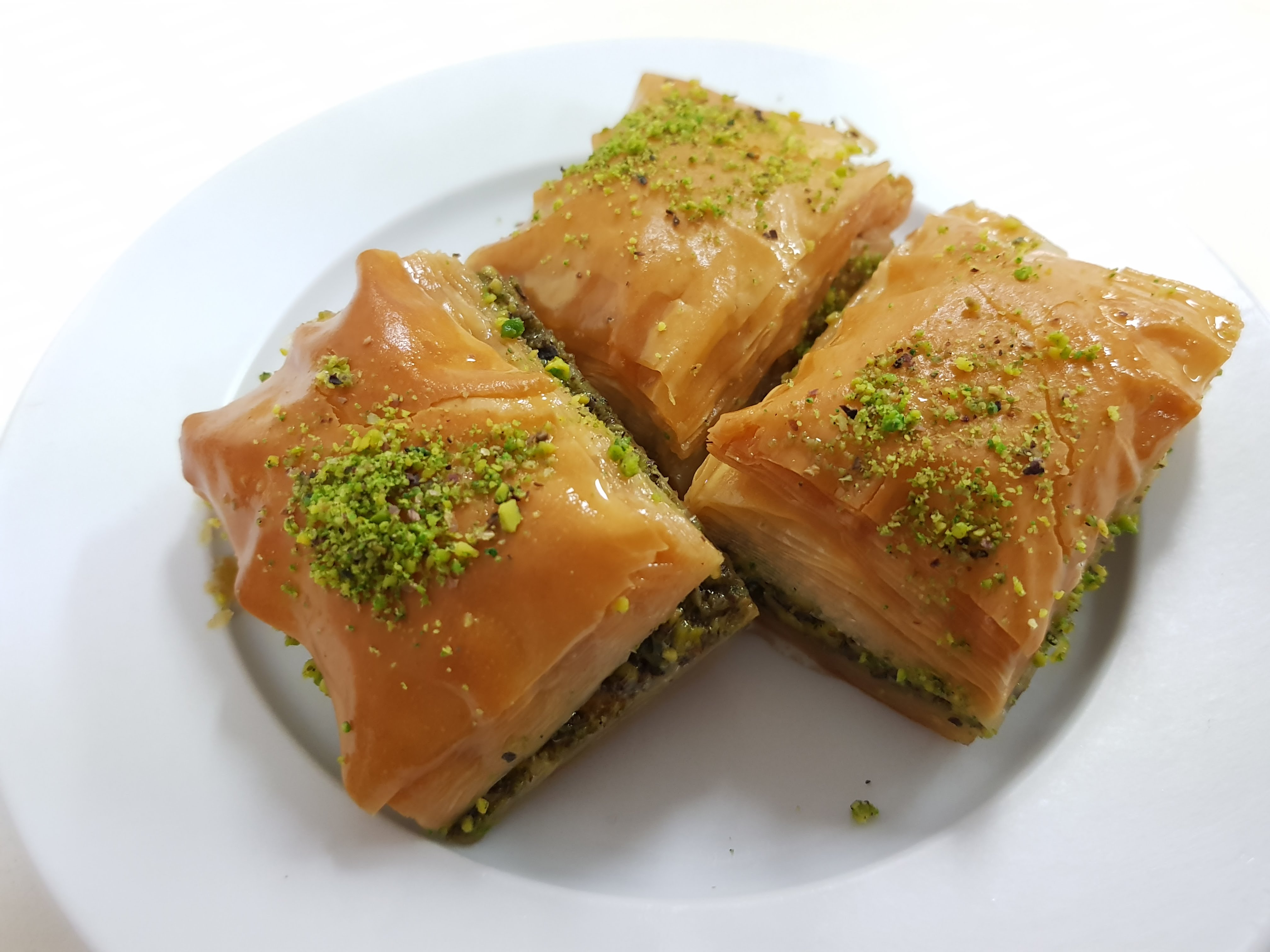 Turkish baklava in Australian turkish cafe